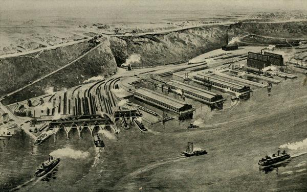 "A modern railroad freight and passenger terminal: the terminal of the West Shore Railroad at Weehawken, opposite New York City."